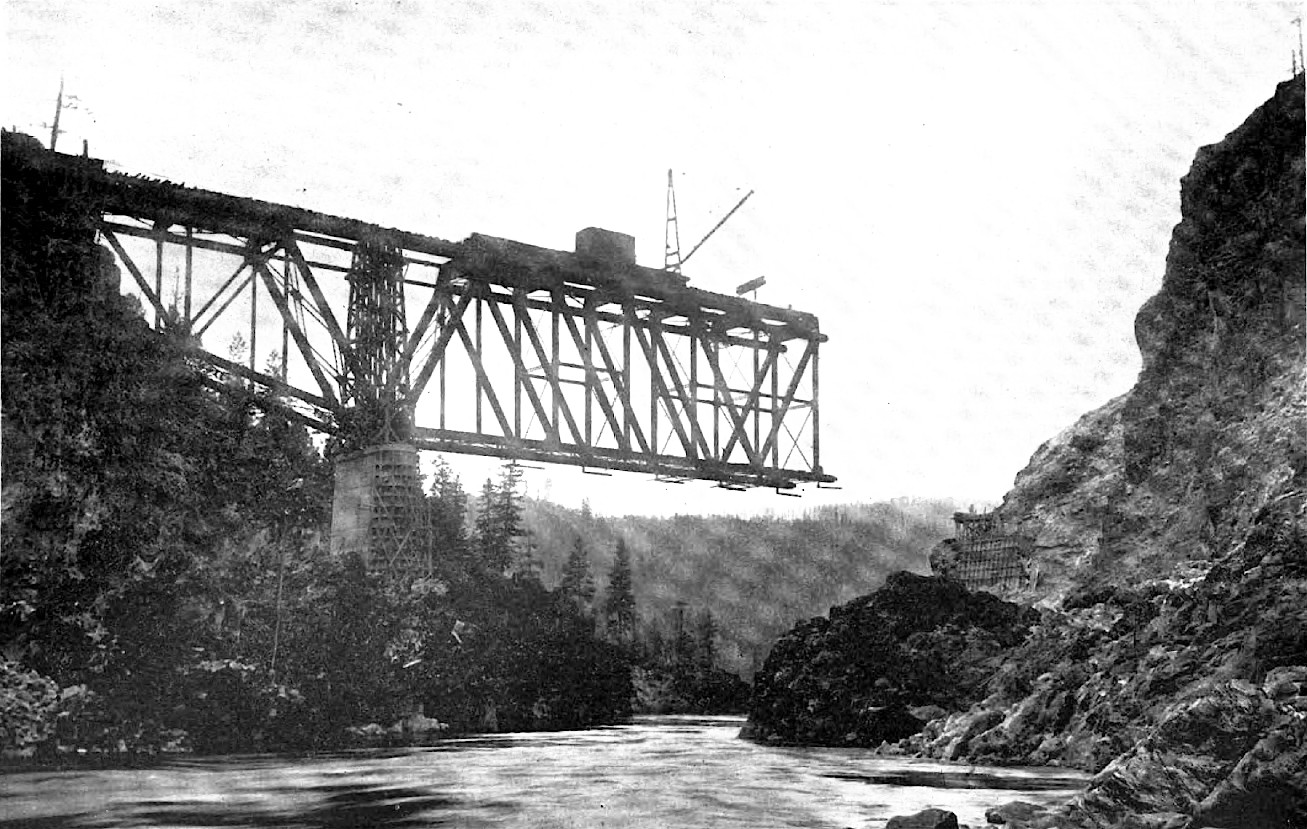 Railway bridge under construction in Box Canyon, over the Pend Oreille River, 1910 or earlier.